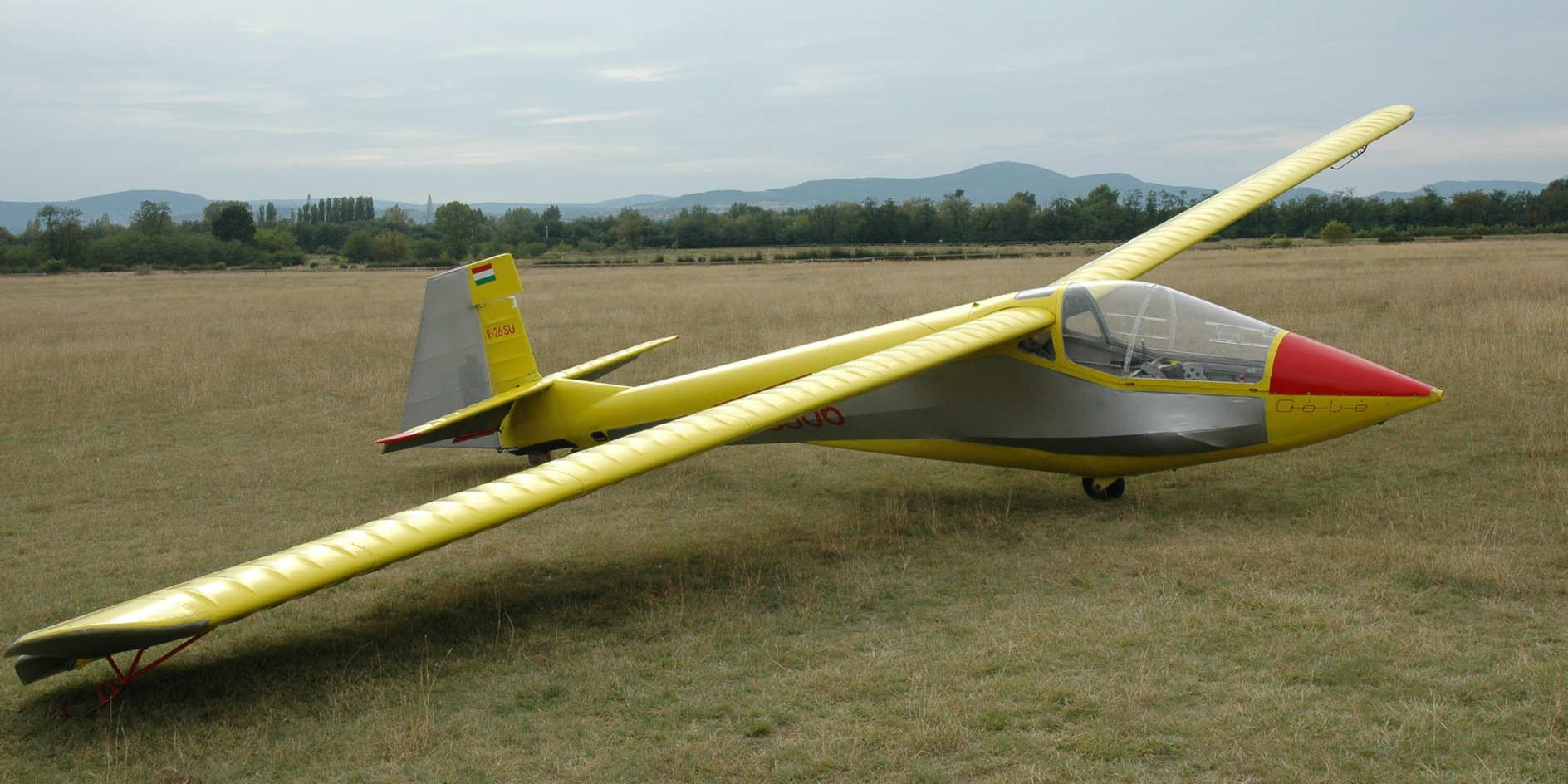 R-26SU Góbé'82 trainer glider (reg. HA-5506)